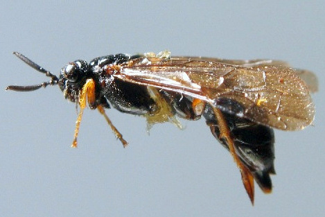 Blasticotoma filiceti. Blasticotomidae: Blasticotoma. Edited to remove insect pin.